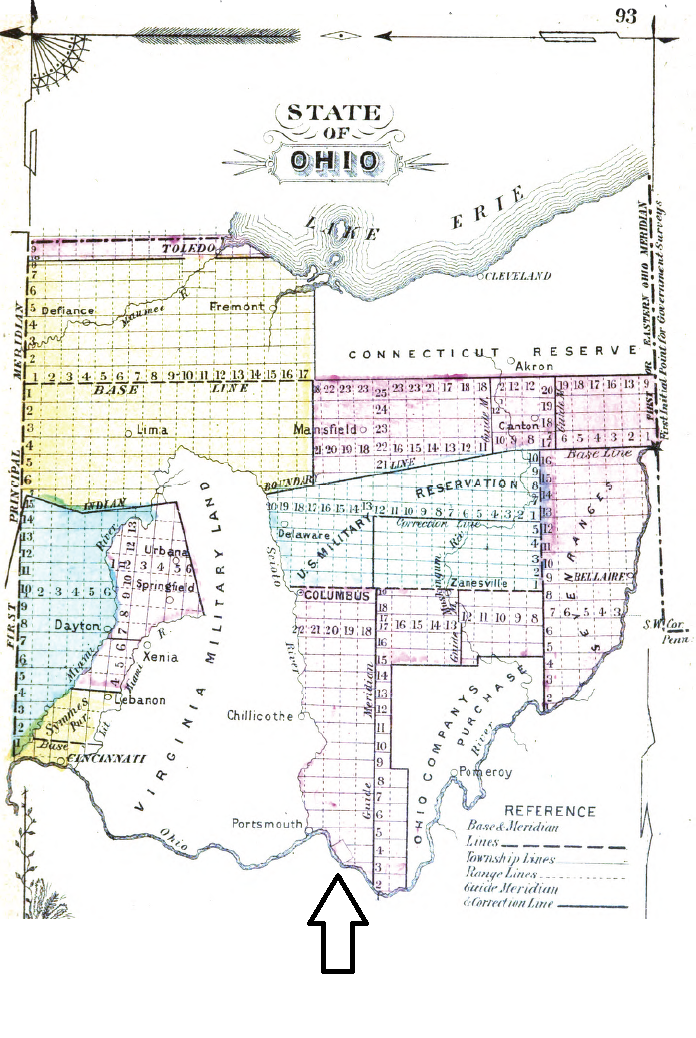 A map showing the French Grant subdivisions of the public lands in Ohio.